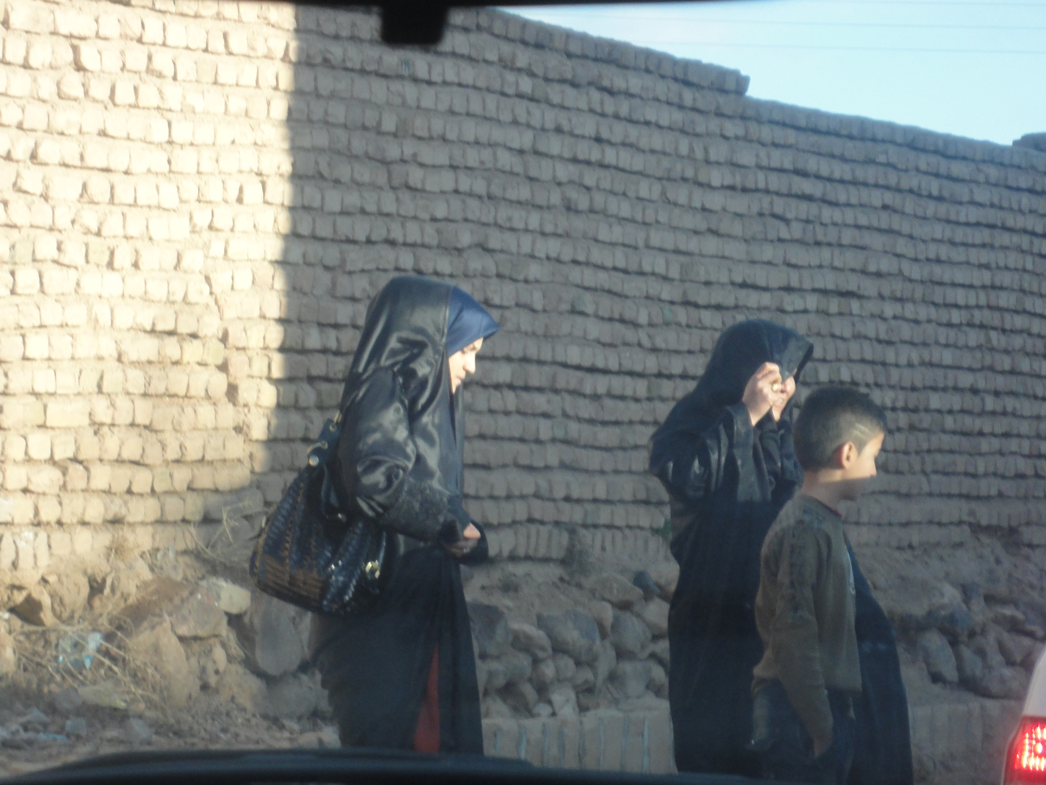 Village of Ma'dan - Nishapur